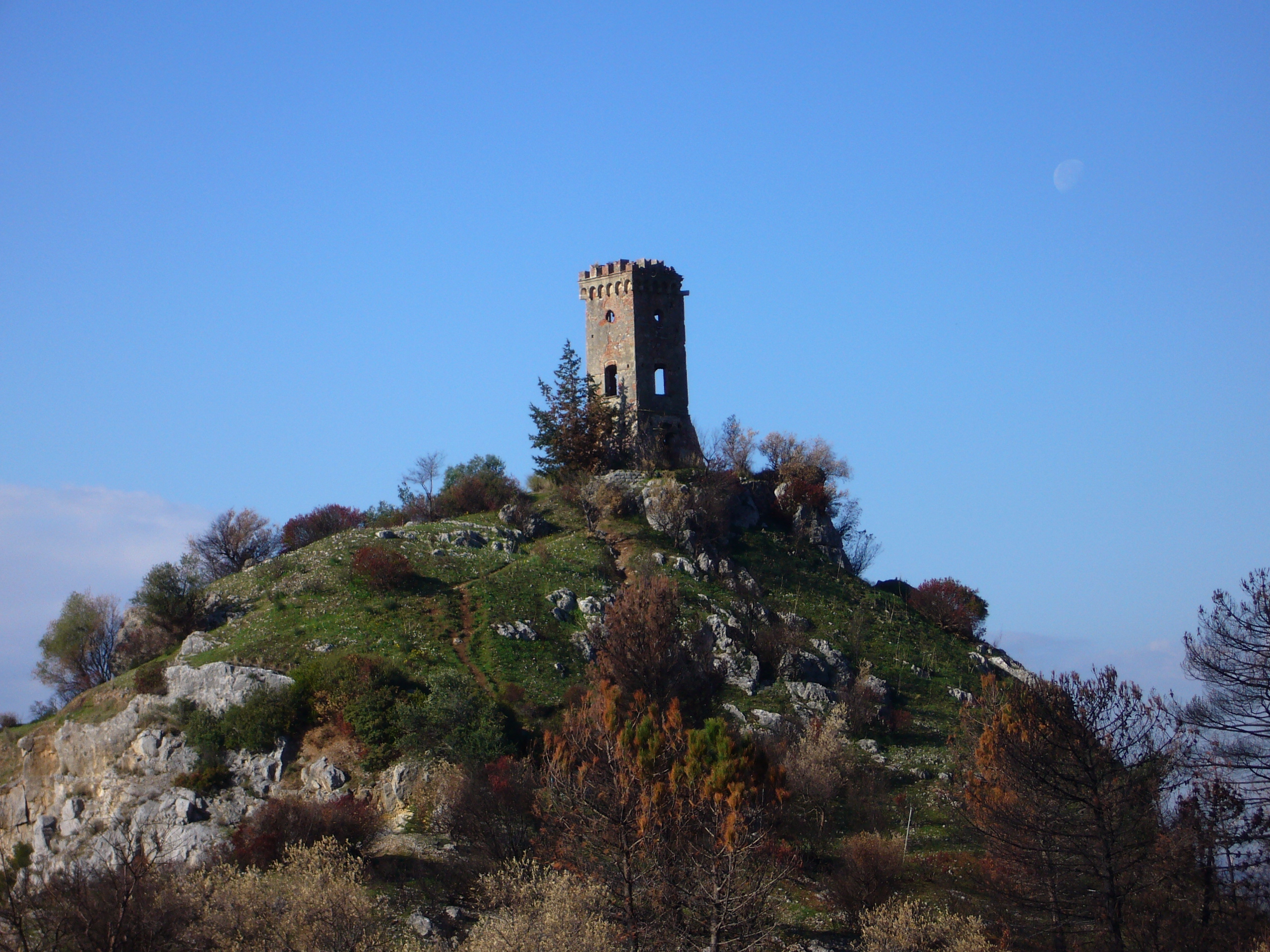 The Upezzinghi tower, near Caprona (Italy)